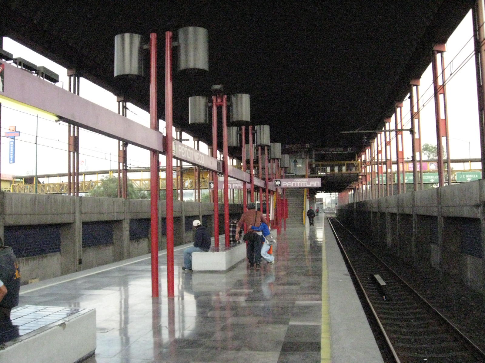 Platform of Metro station Peñon Viejo on Line A of the Mexico City Metro system